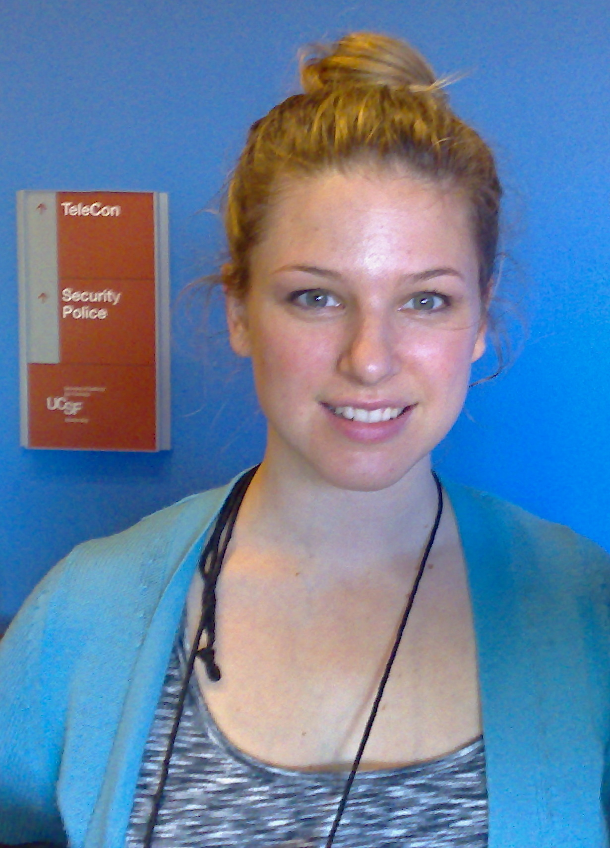 Lisa Nova at NewTeeVee LIVE